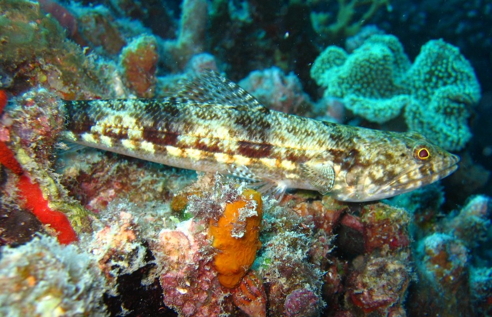 A Variegated Lizardfish (Synodus variegatus) rests upon sponges. G Spot, St Crispin's Reef, Great Barrier Reef